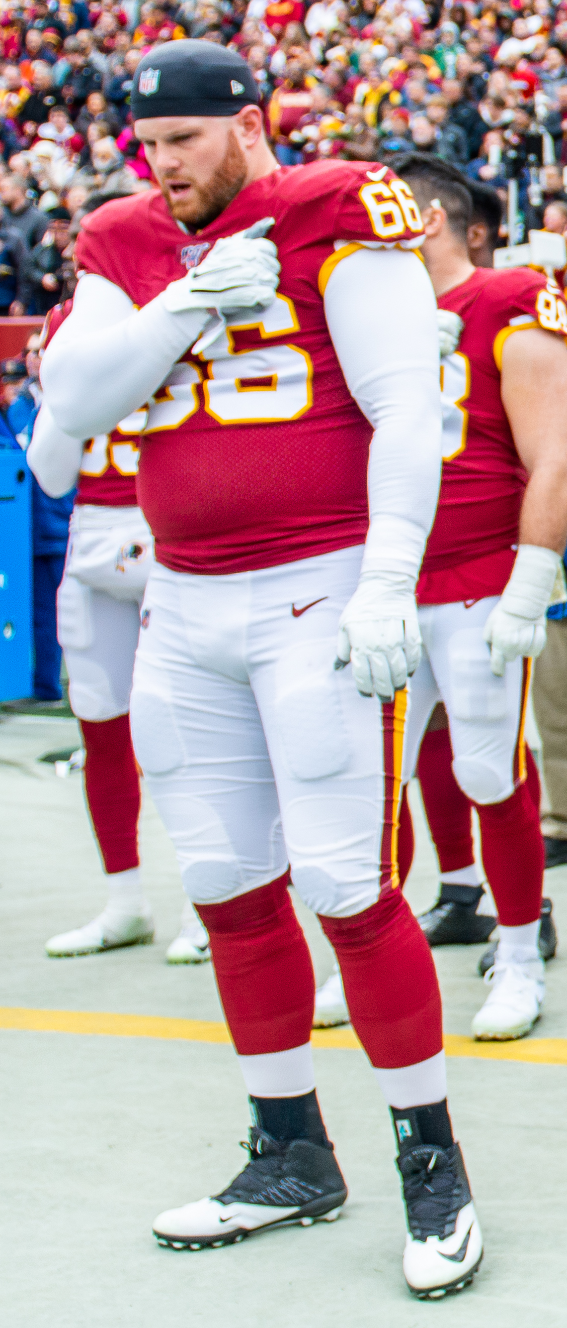 In 2019